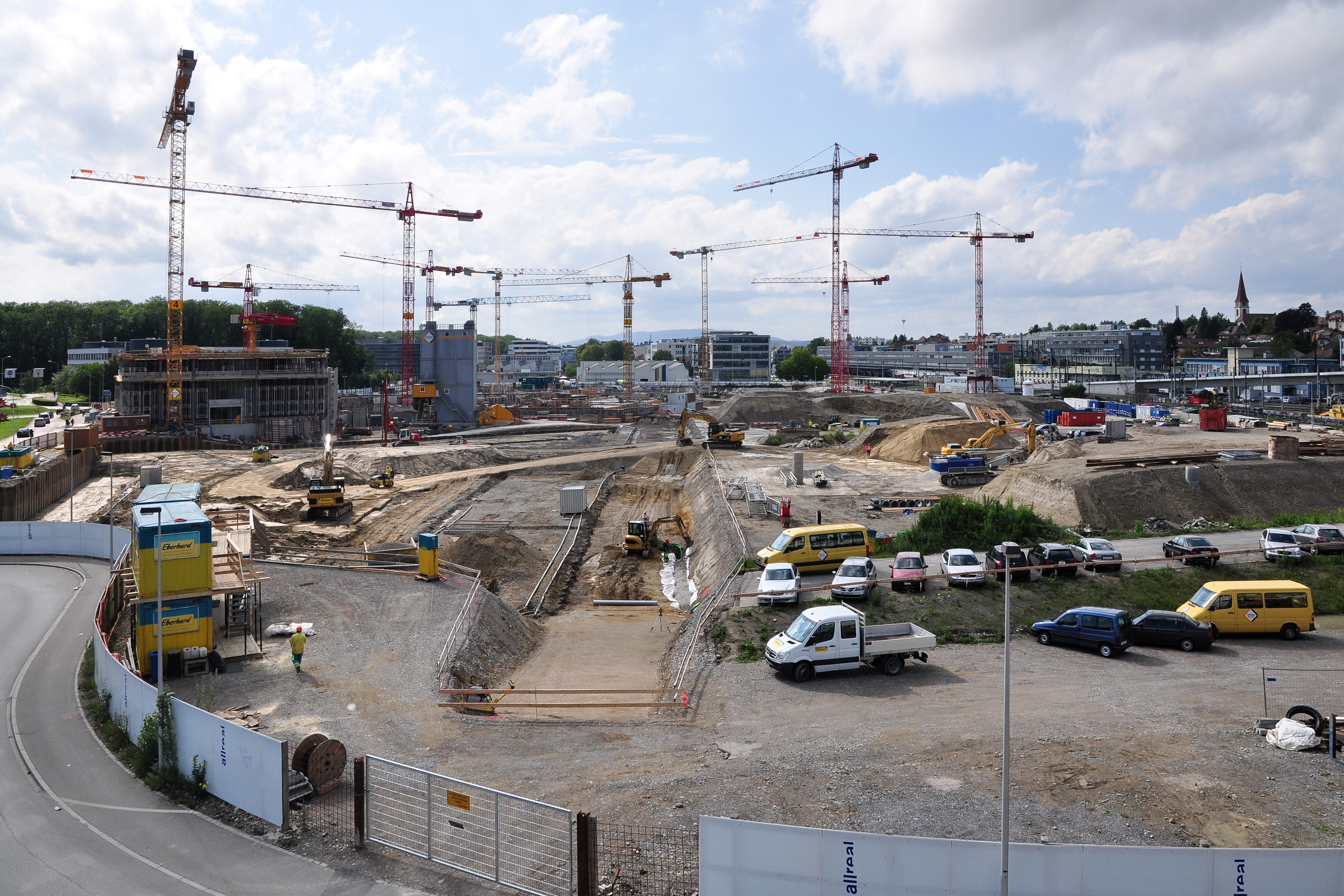 Richti-Areal in Wallisellen (Switzerland) as seen from the Glattalbahn train station Glattzentrum